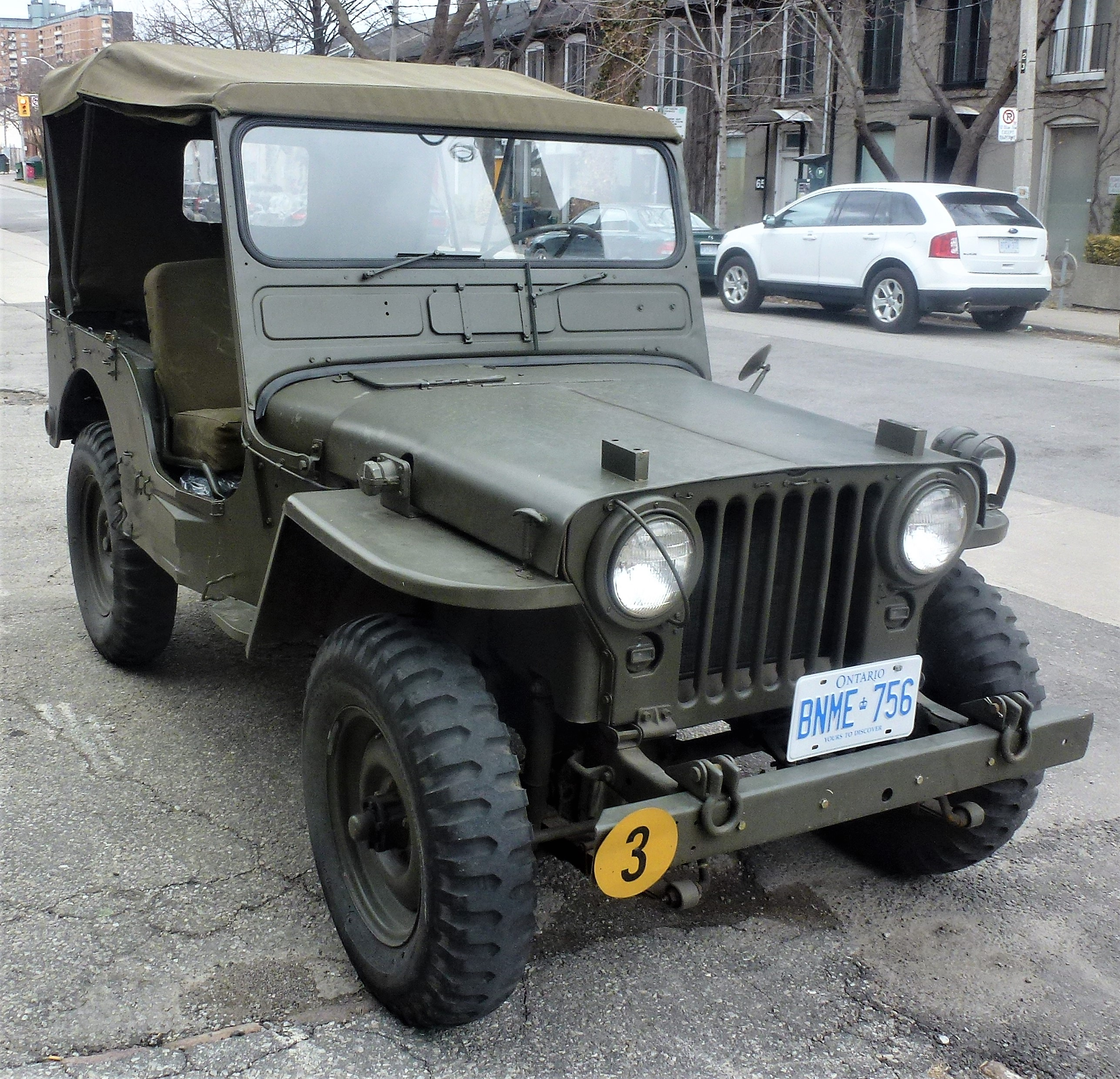 May be a heritage jeep, seen at Berkeley, near King Street, 2014 04 26 (13)